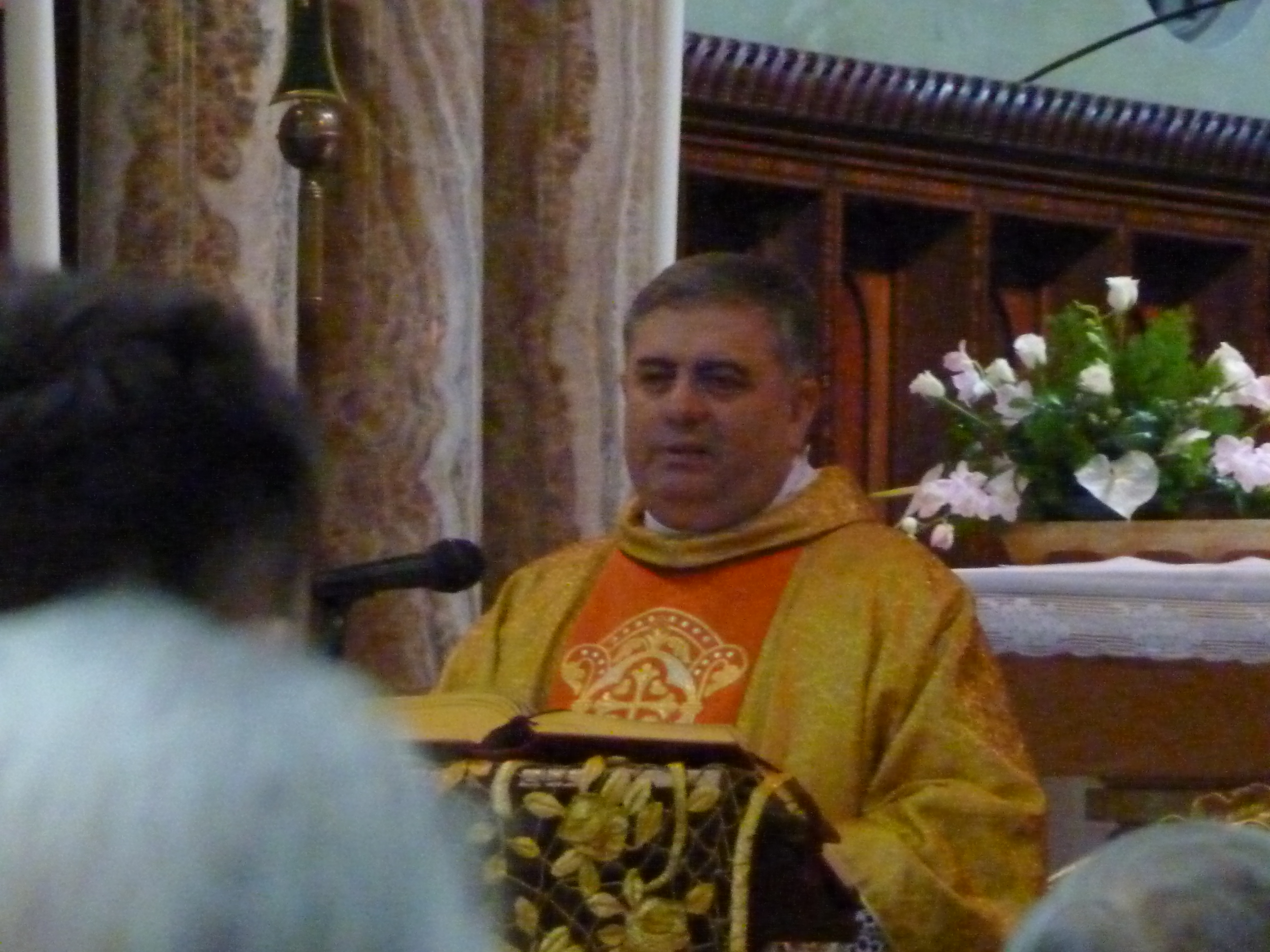 José Rodríguez Carballo, Minister General of the Order of Friars Minor, 2003